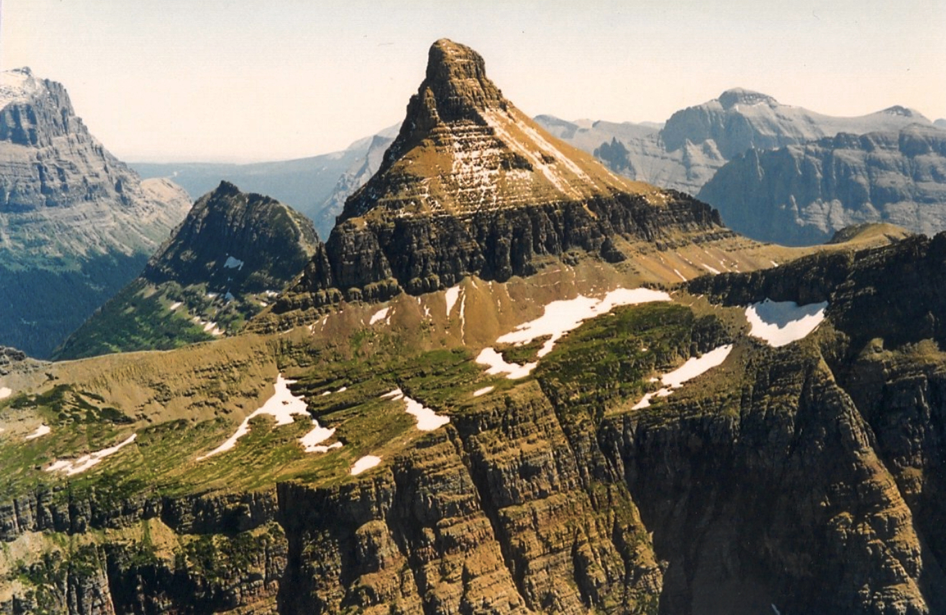 Reynolds Mountain seen from Bearhat Mountain in Glacier National Park, Montana